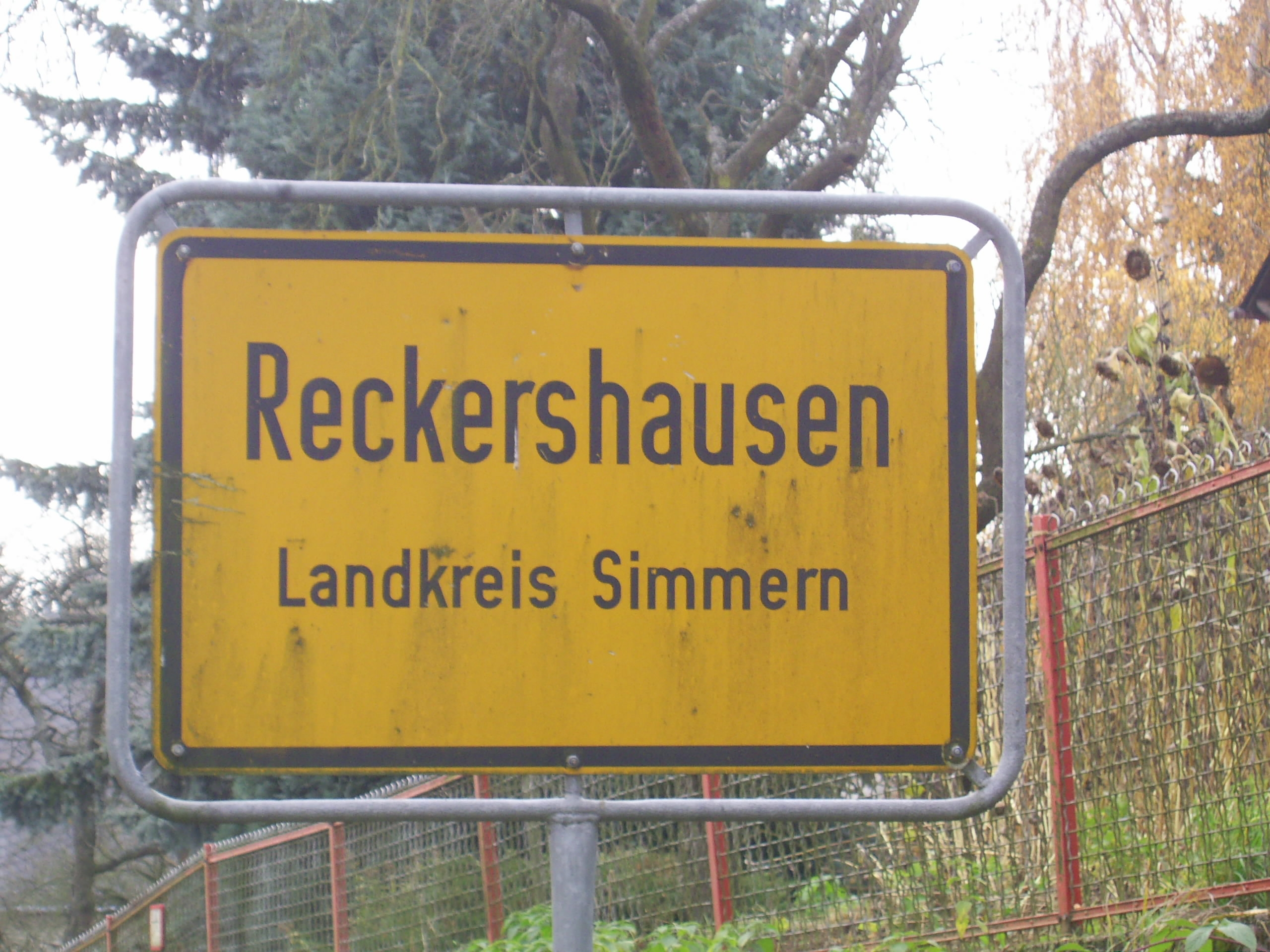 Former Landkreis Simmern sign, village Reckershausen in the Hunsrück landscape, Germany.